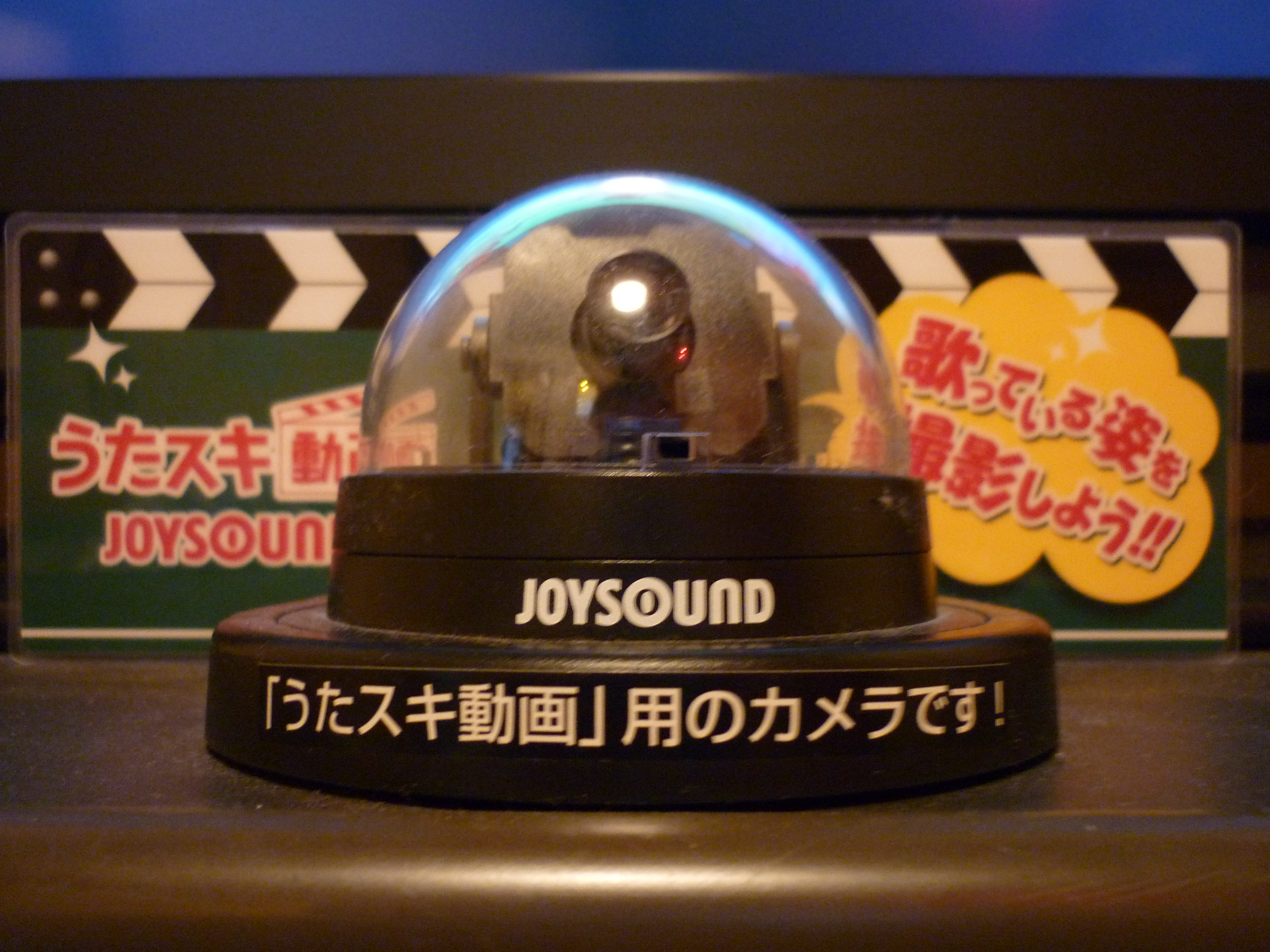 Video camera for JS-WX, a karaoke console from Xing